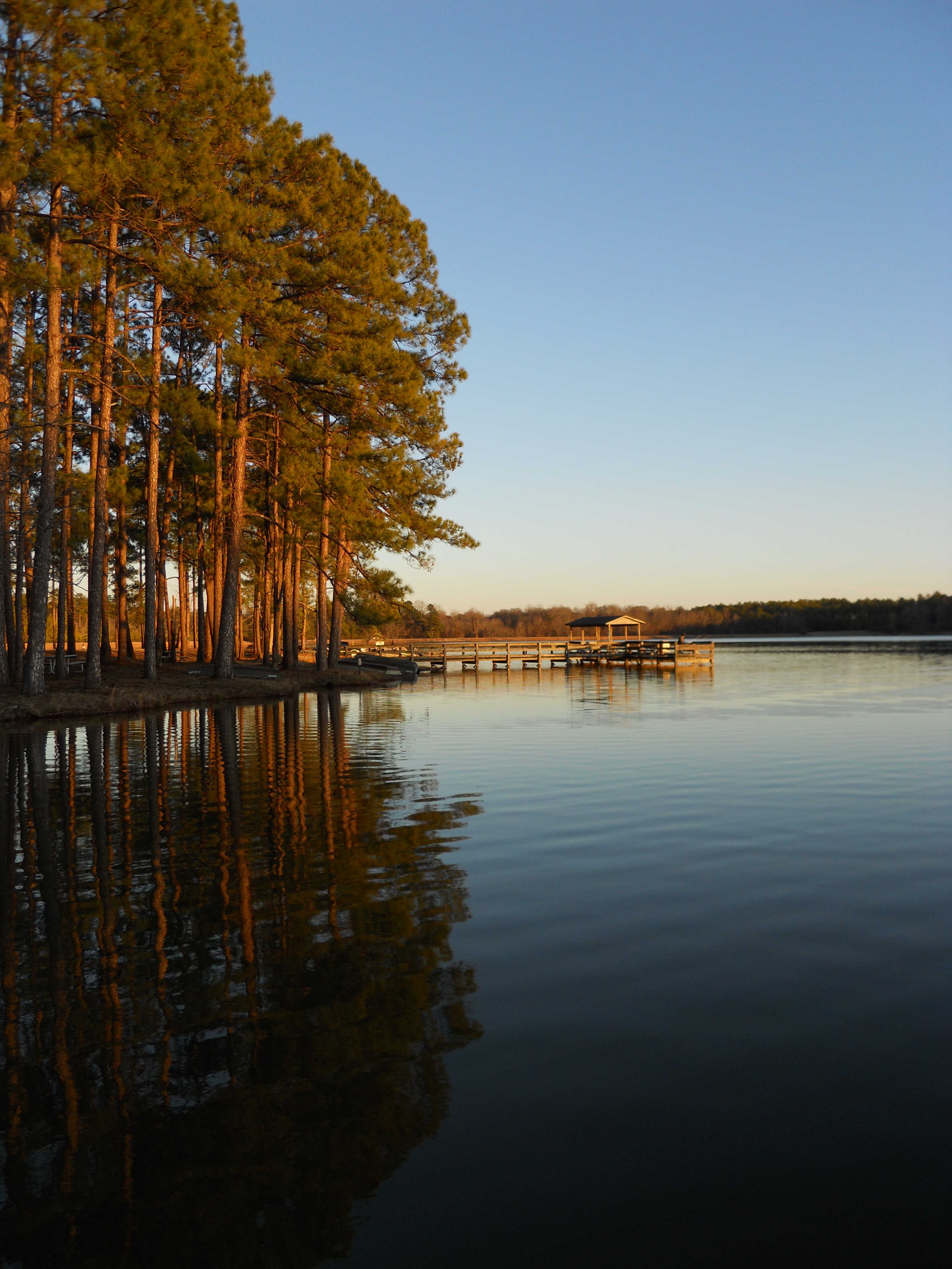 This is a photograph of Lee County Lake in Lee County, Alabama.